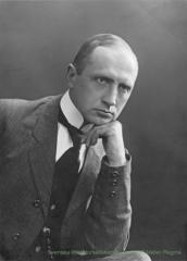 Arvid Mörne, Swedish-speaking Finnish poet and author.